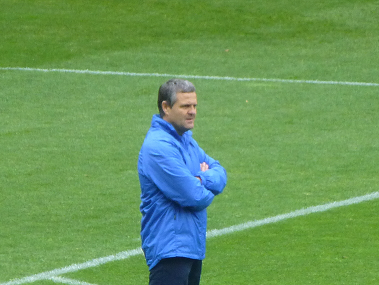 Albert Capellas Herms in GelreDome prior to the football match Vitesse vs. FC Twente